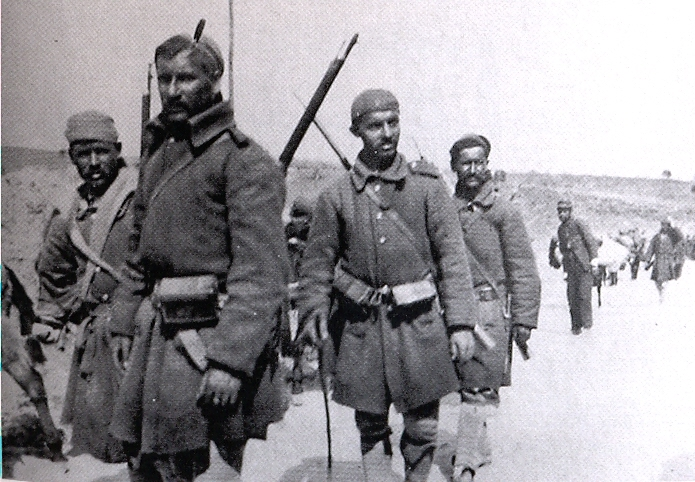 Greek Evzones in Ioannina region (Epirus) after the Battle of Bizani (First Balkan War) 1913.